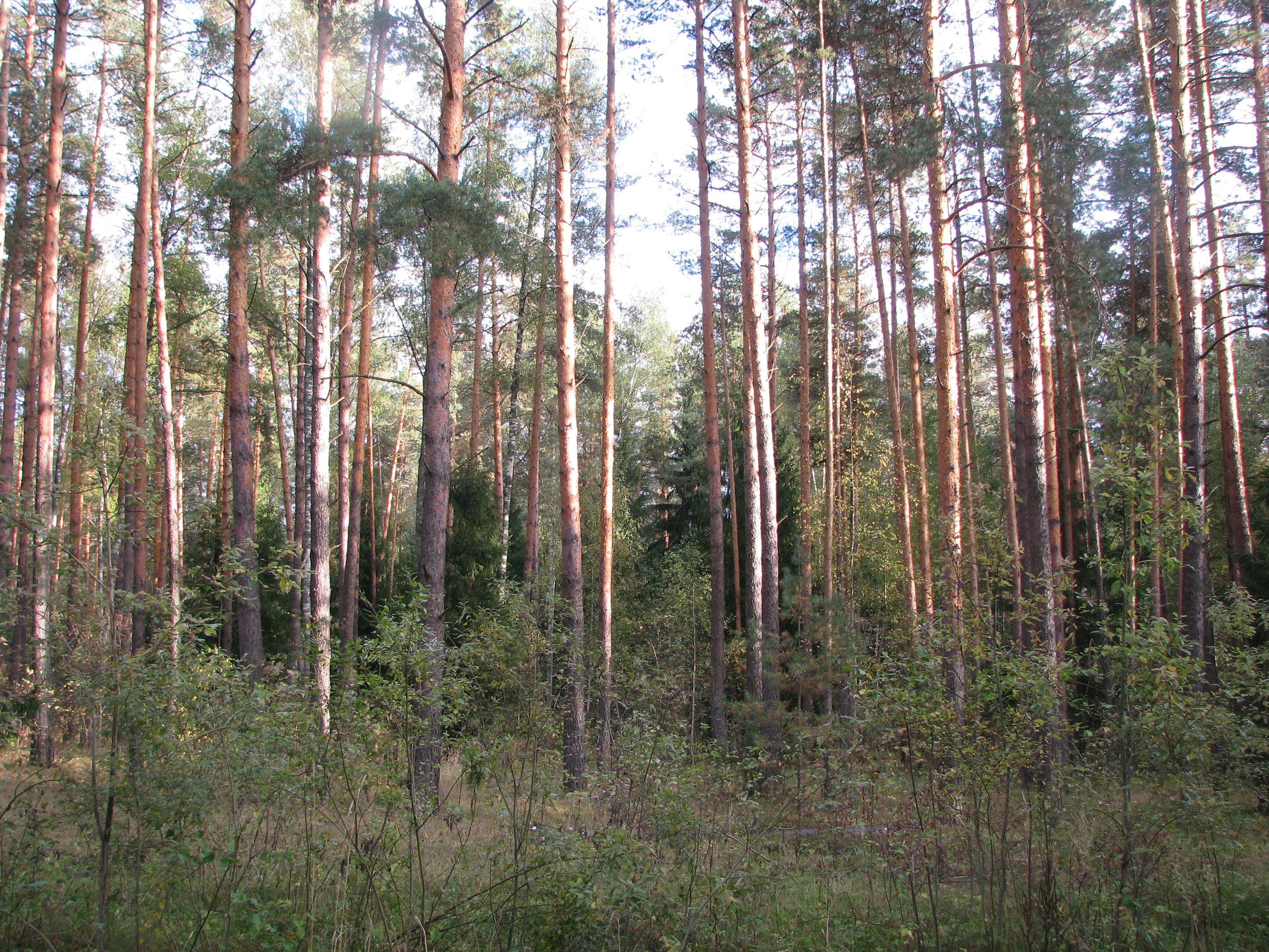 Understory. Scots Pine Forest. Ivanovo oblast', Russia